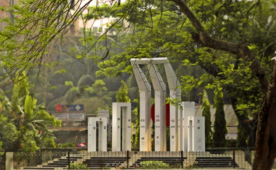 Shaheed Minar of Comilla Zilla School